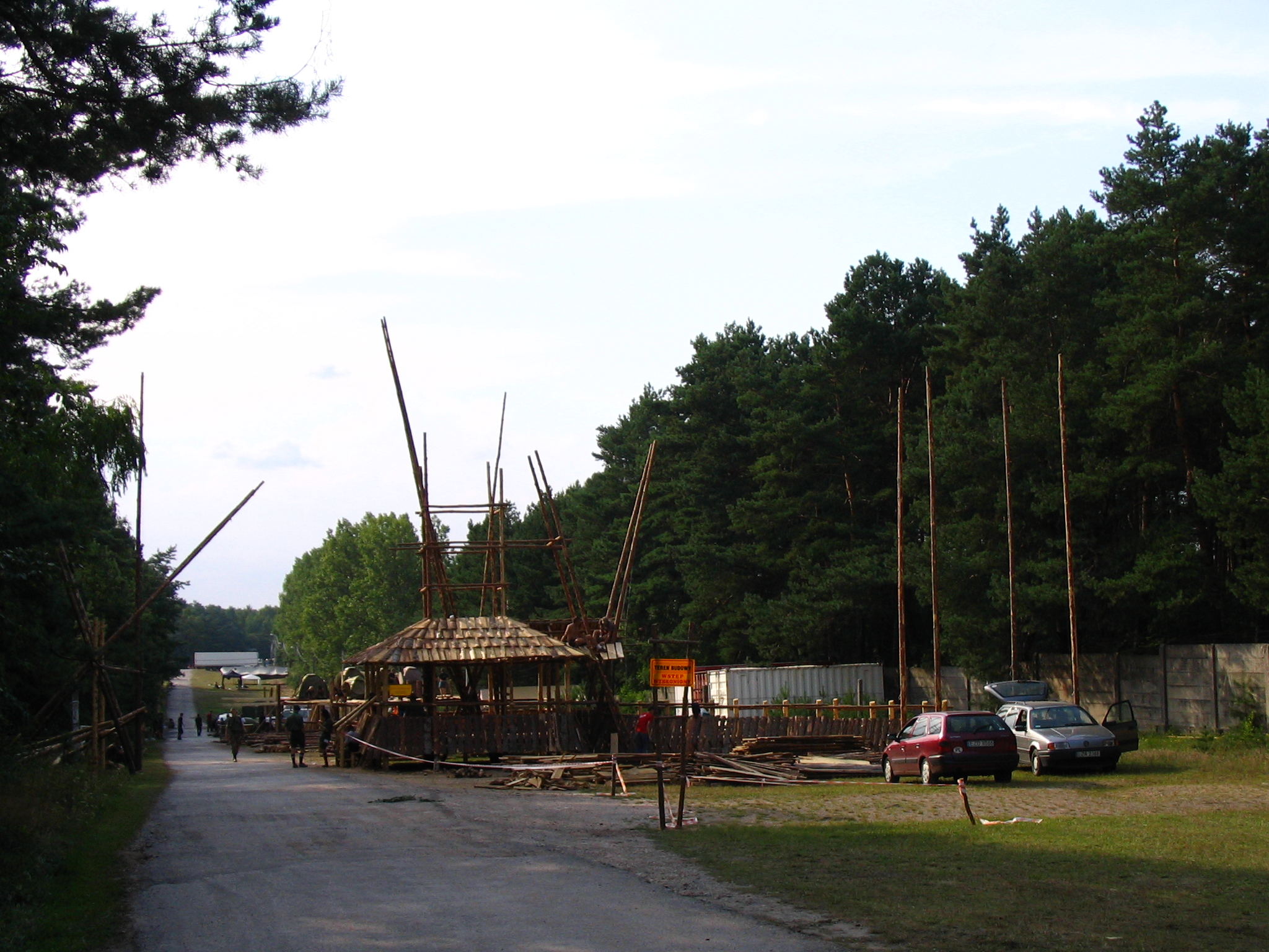 Building of the gate of the scout camp in Kielce, during National Jamboree in Kielce, Poland, 2007 Aparat/Camera: Canon PowerShot A75